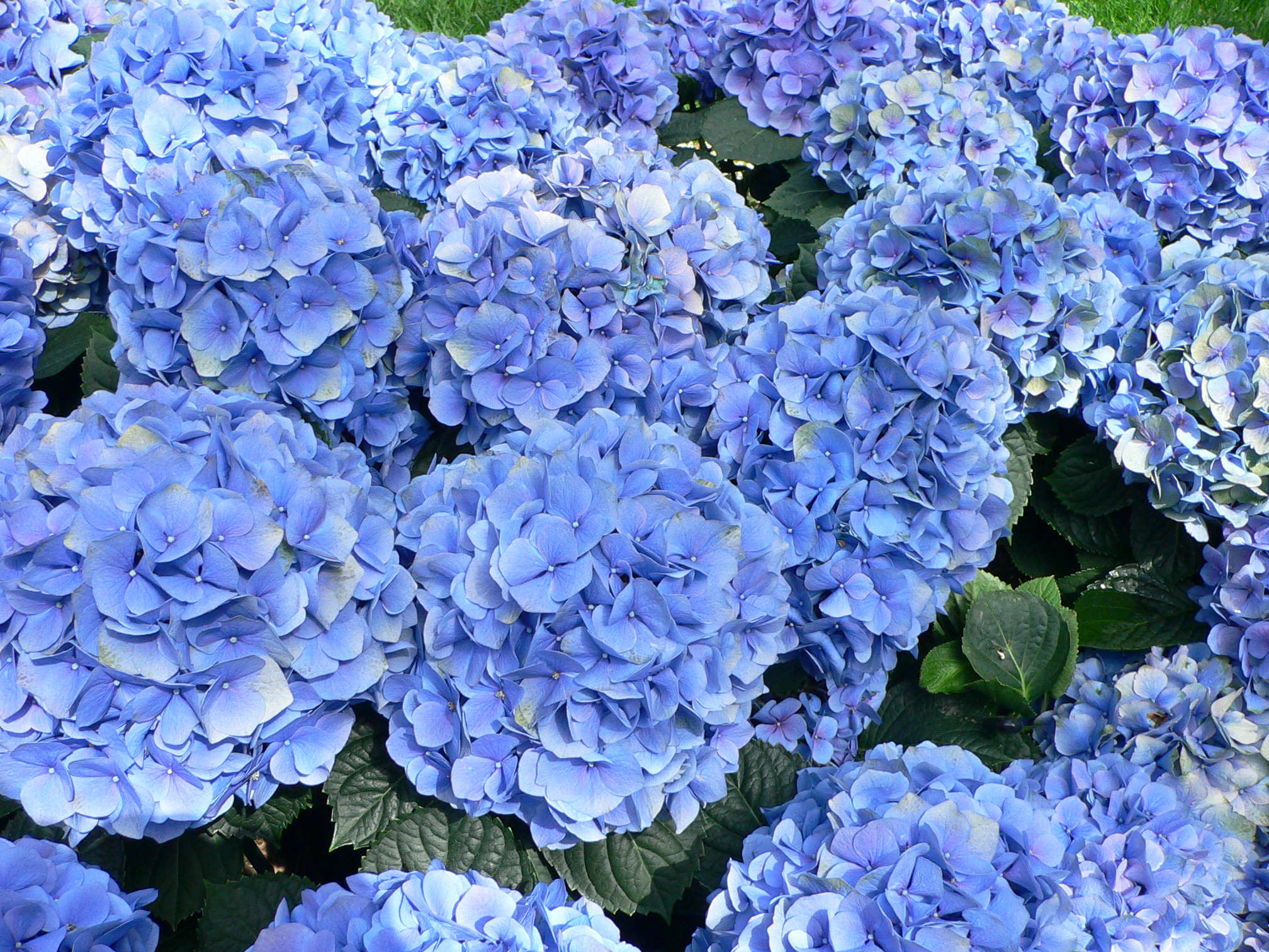 Hydrangea macrophylla - Hortensia hydrangea, picture from Longwood Gardens